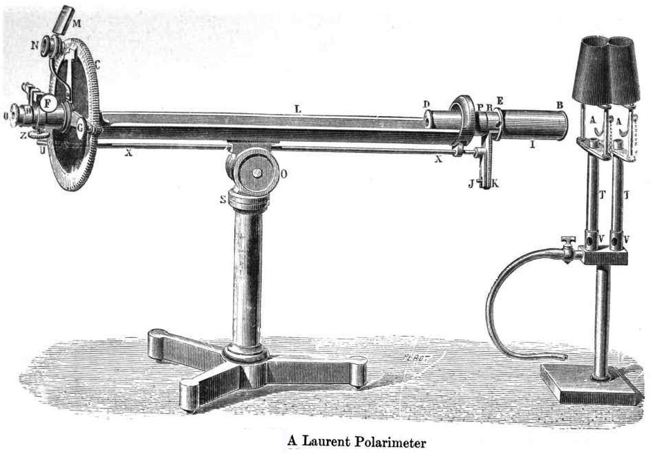 This is an engraving of a polarimeter. It shows the various parts of the instrument.